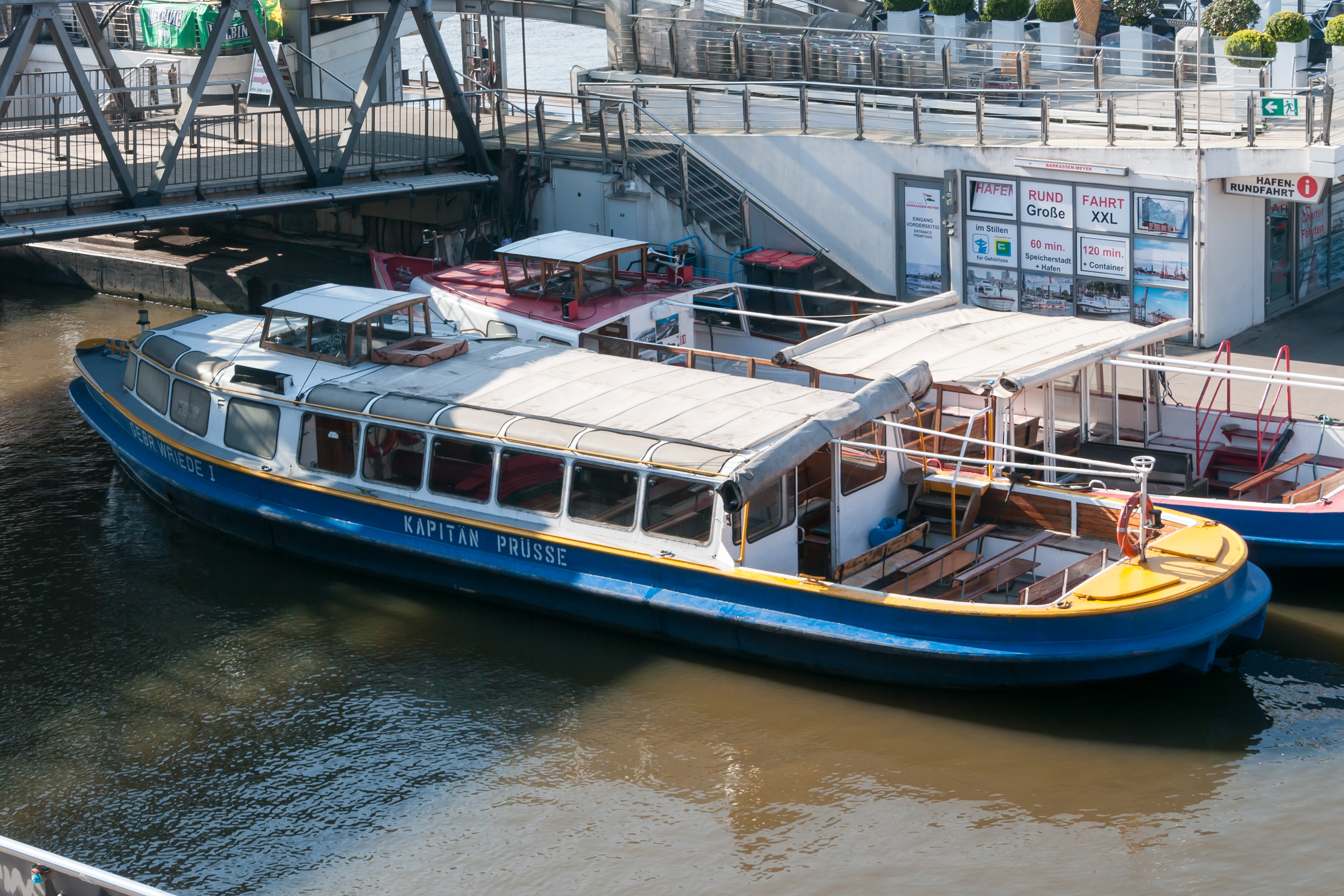 Barkasse Gebr. Wriede 1 at Landungsbrücken, Hamburg